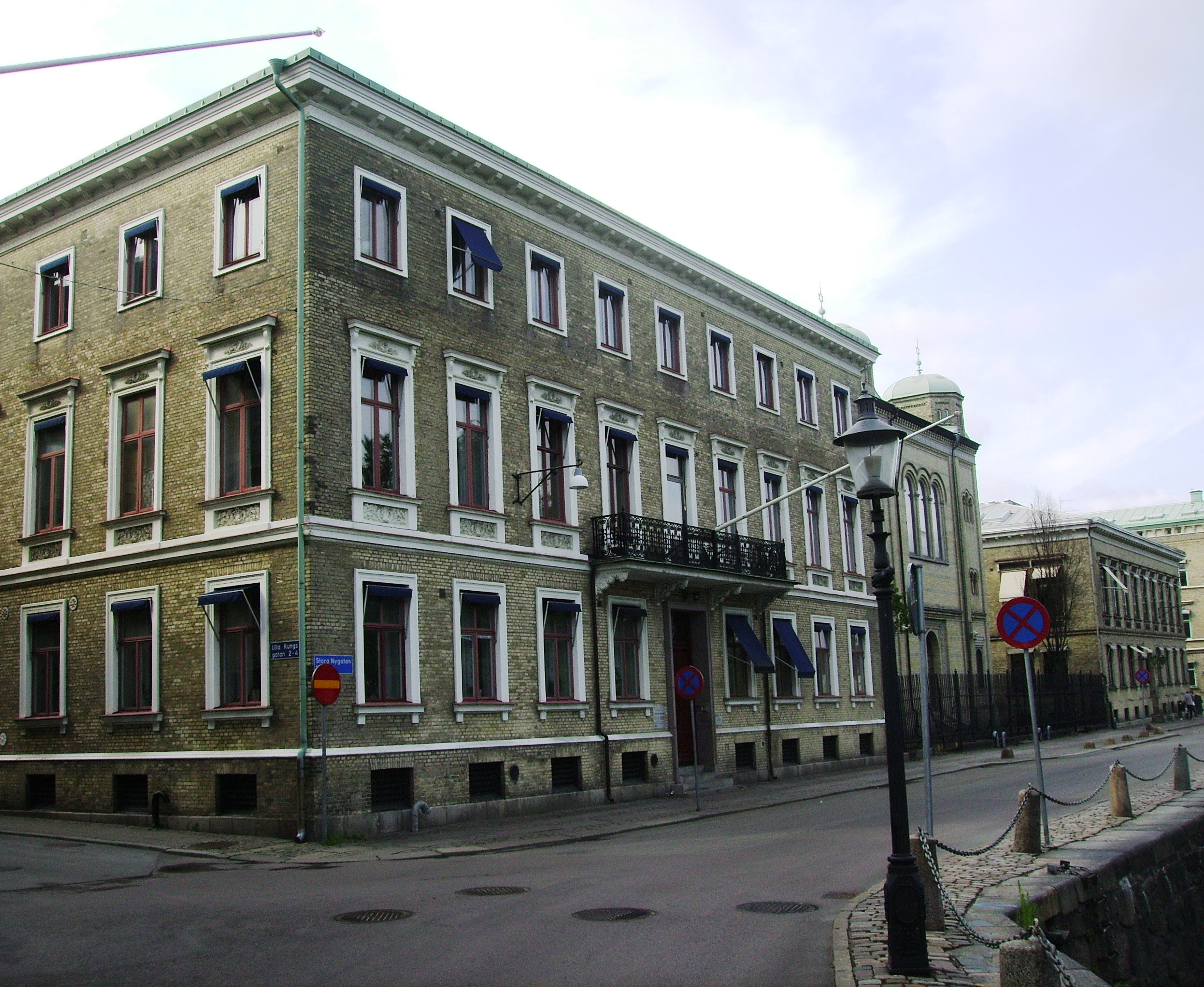 Stora Nygatan 17 1/2 in Gothenburg, a building